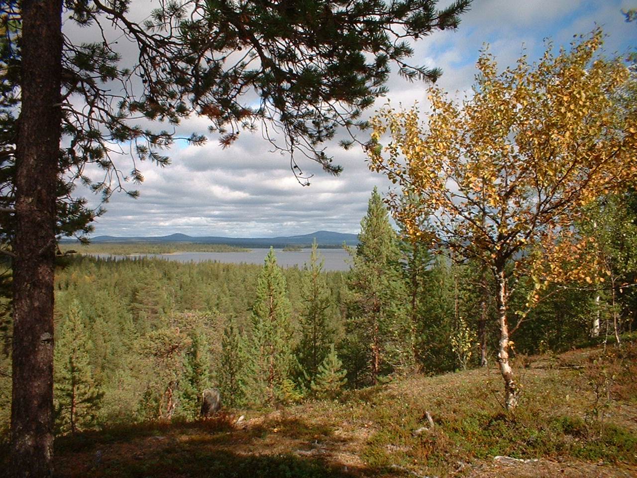 Landscape near Salla, Finland